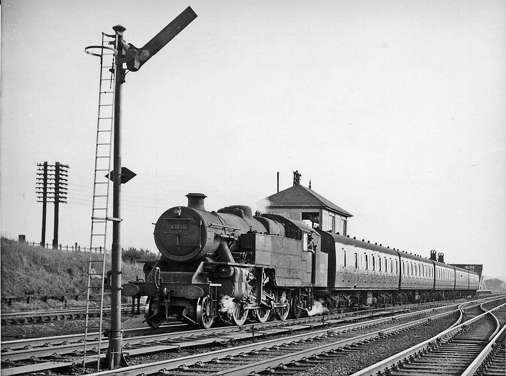 Down local train leaving Napsbury Station. View southward, towards London; ex-Midland London St Pancras - Leicester - Sheffield etc. Main Line. Napsbury station was closed on 14/9/59 - year after this photograph. The 15.40 St Pancras to St Albans is hauled by LMS-type Fairburn4MT 2-6-4T No. 42156.